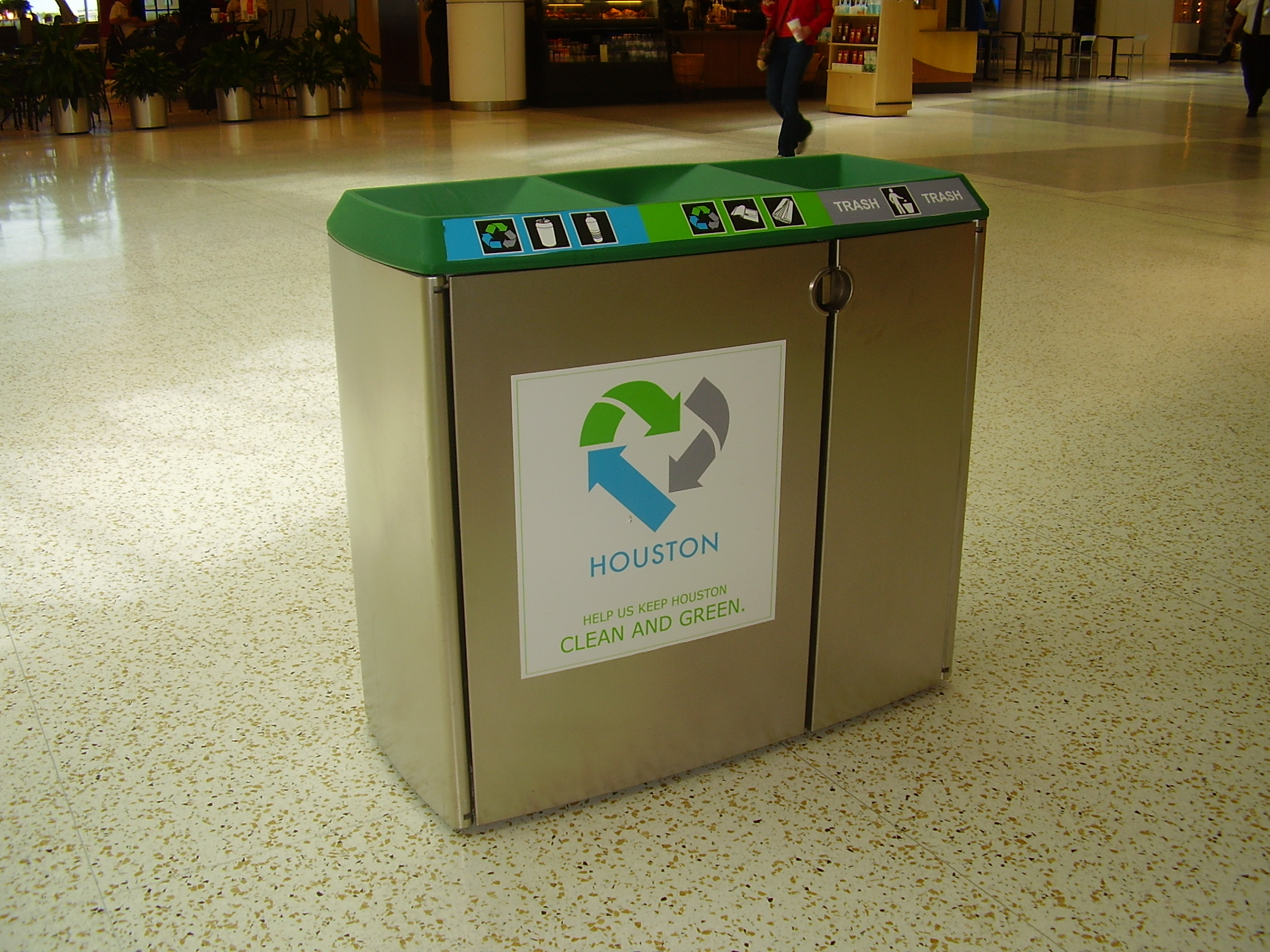 Trash can/recycling bin, Terminal A